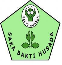 this is logo saka bakti husada